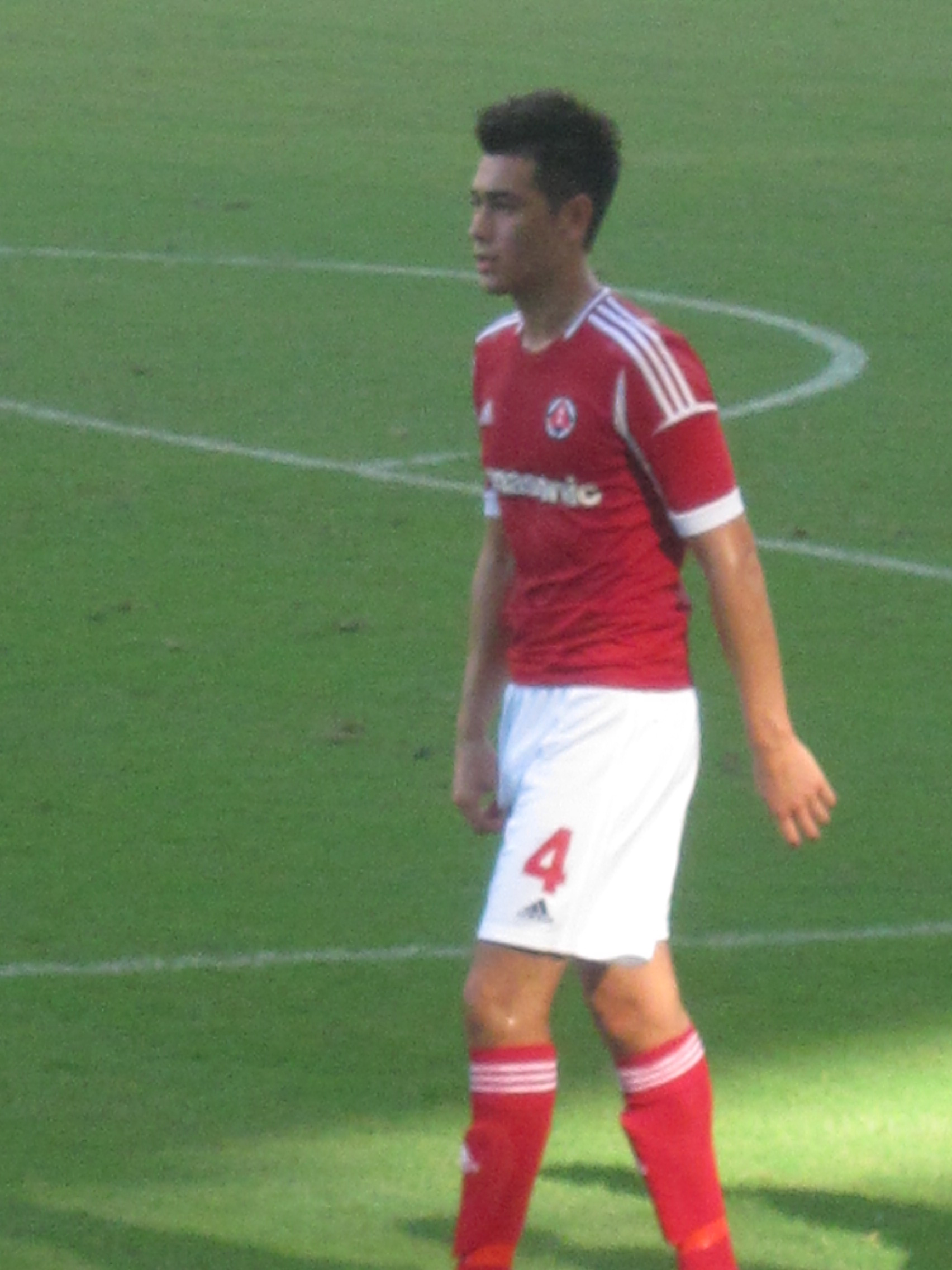 Sean Tse (2 September 2012, 2012–13 Hong Kong First Division League vs Yokohama FC Hong Kong at Hong Kong Stadium)